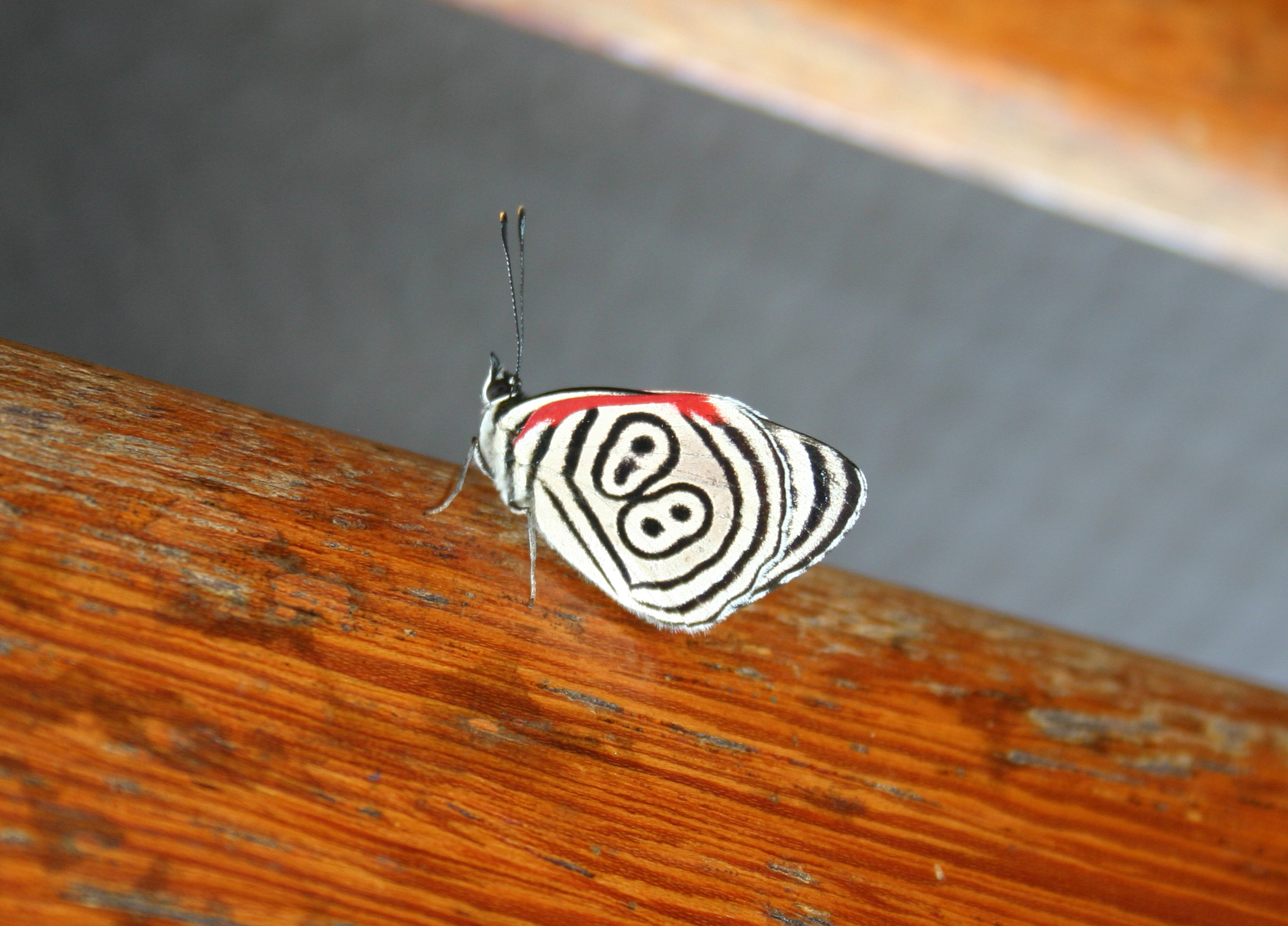 A butterfly photographed in the national park of Foz do Iguaçu, Brazil. A butterfly photographed in the national park of Foz do Iguaçu, Brazil.